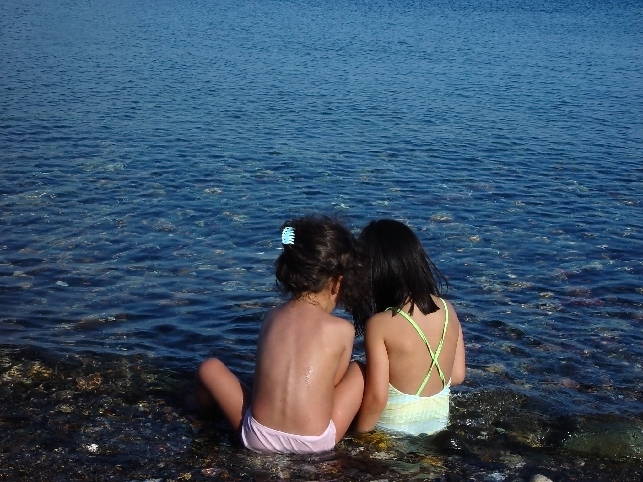 Kids at shore